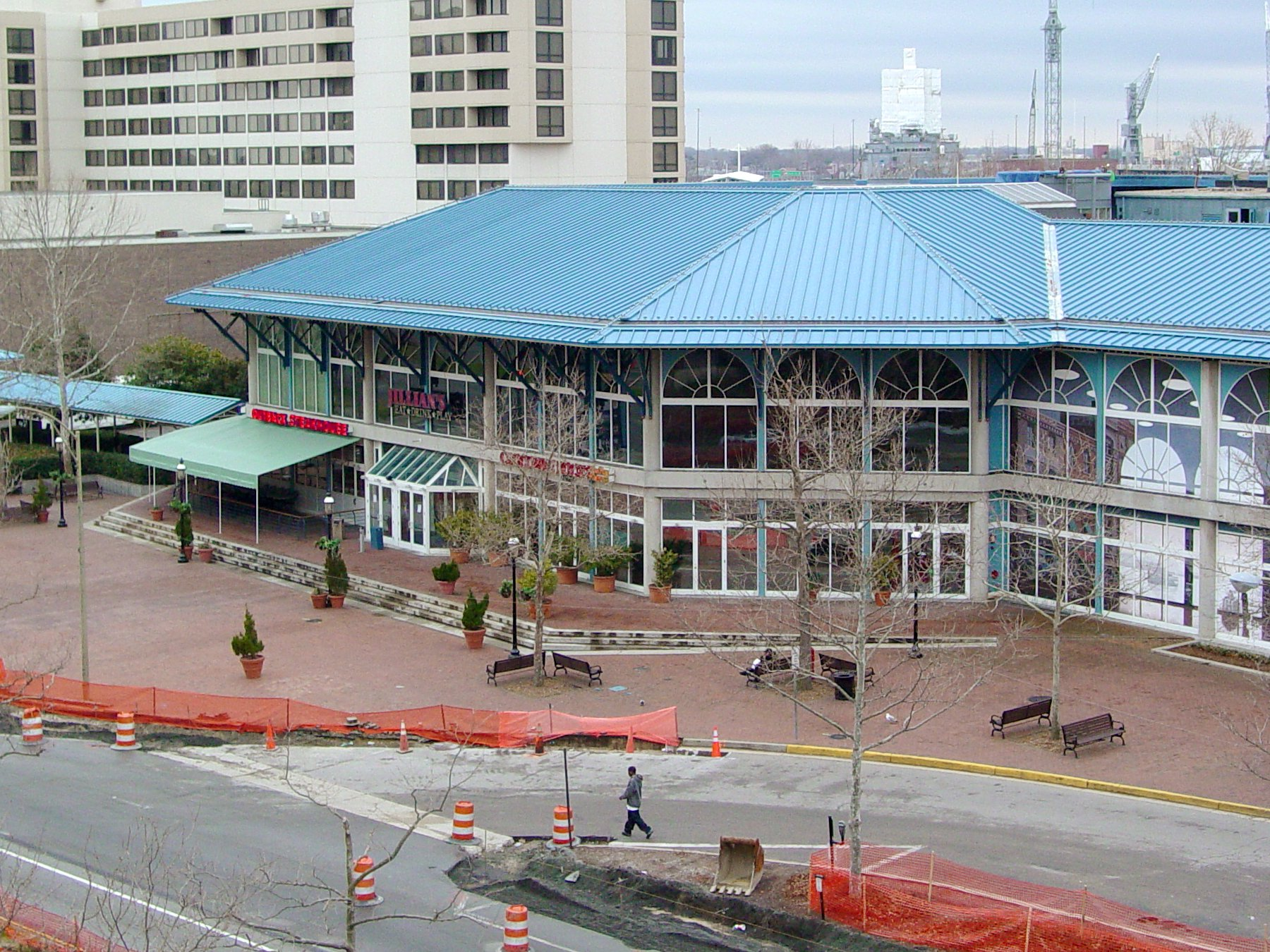 The Waterside, a small shopping and entertainment facility in Norfolk, Virginia.